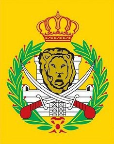 Royal Guard Insignia